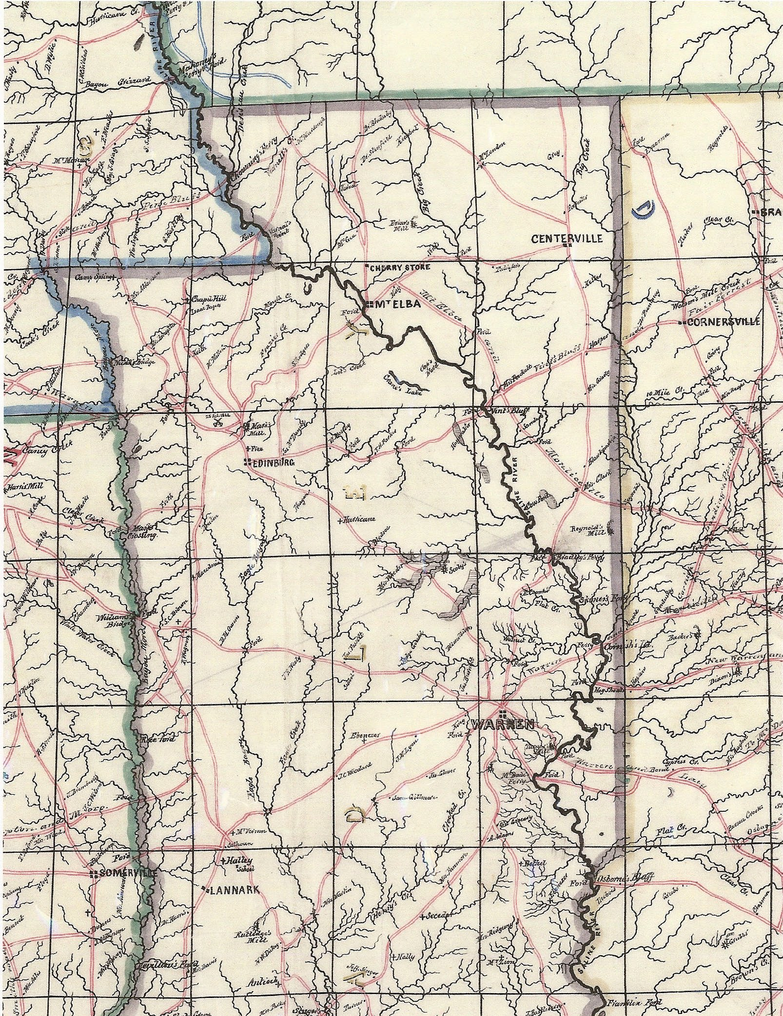 Map of western Arkansas, vicinity of Marks Mill, site of an 1864 battle during Steele's "Camden Expedition."